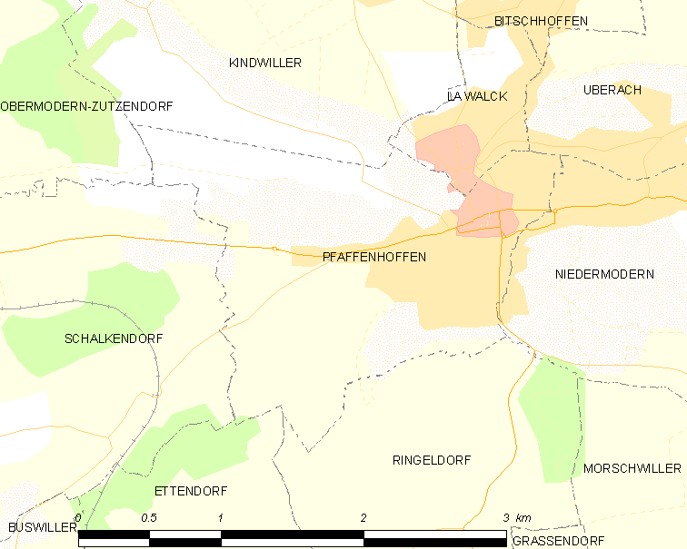 Map of French municipality